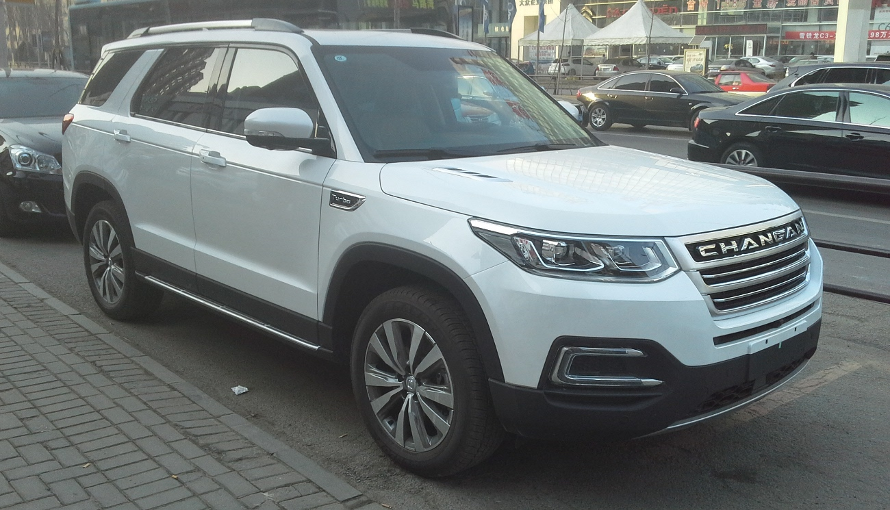 Chang'an CS95 photographed in Shenyang, Liaoning province, China.